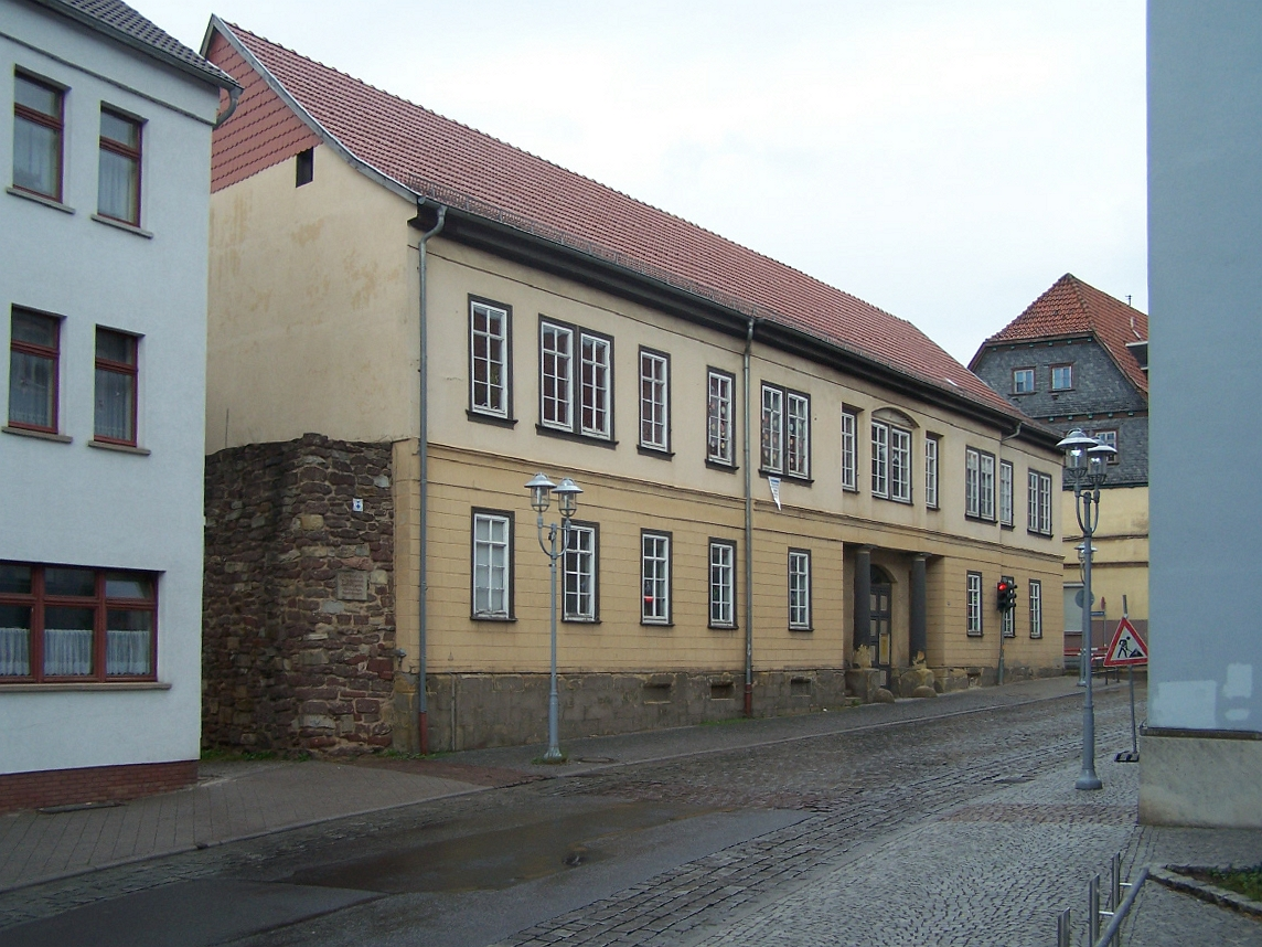 The oldest post office - called Alte Posthalterei in Eisenach.